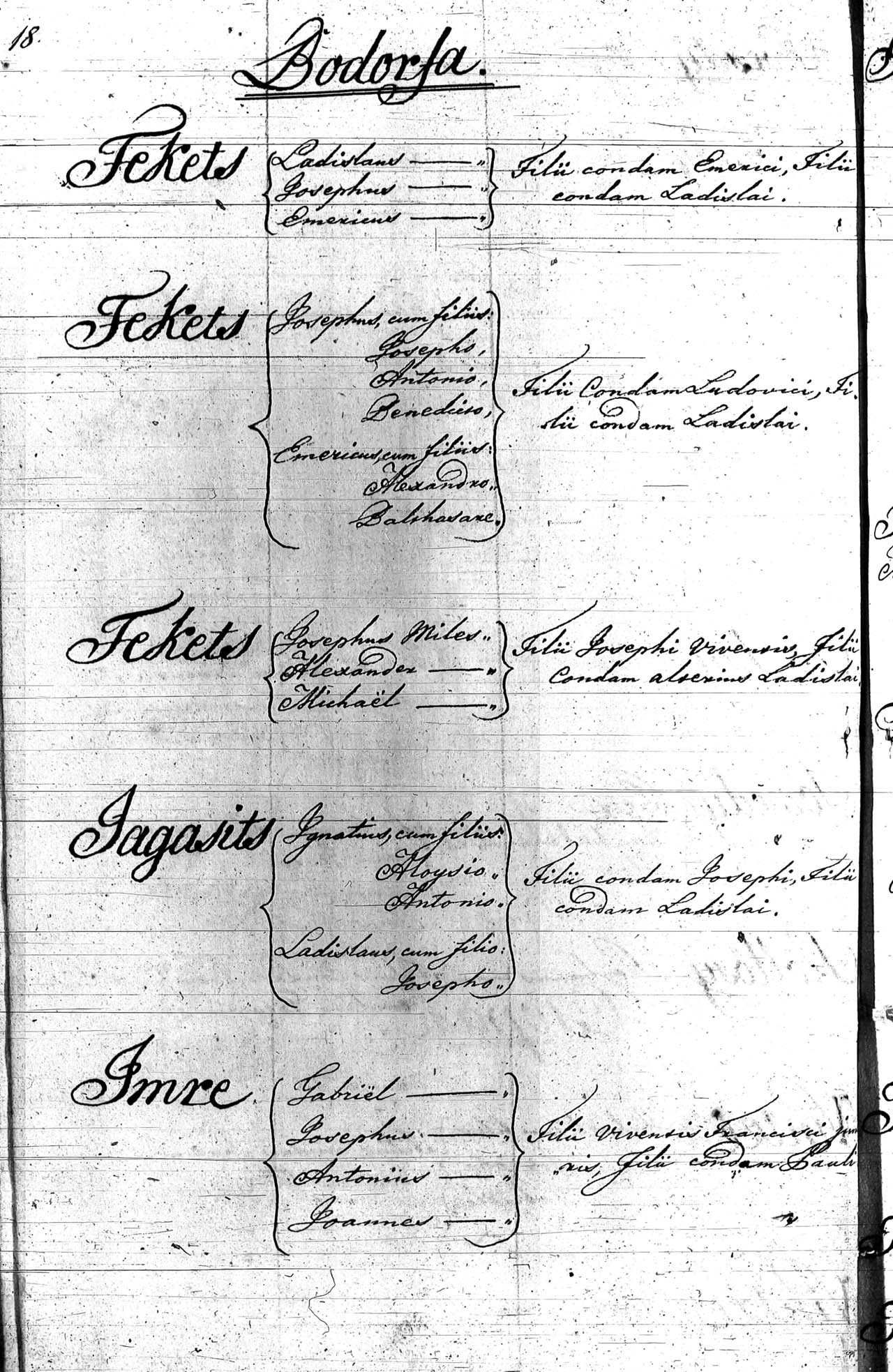 Nemesi level